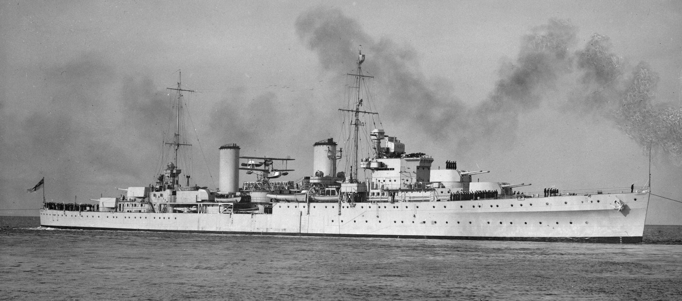 HMAS Hobart